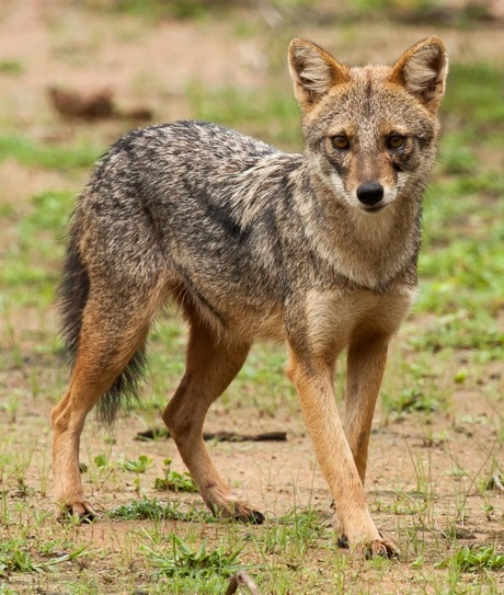 Sri Lankan jackal, Yala National Park